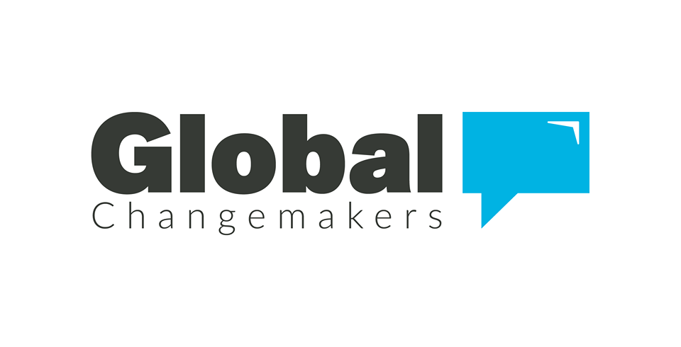 This file represents the official image of Global Changemakers, a registered NGO in Switzerland.